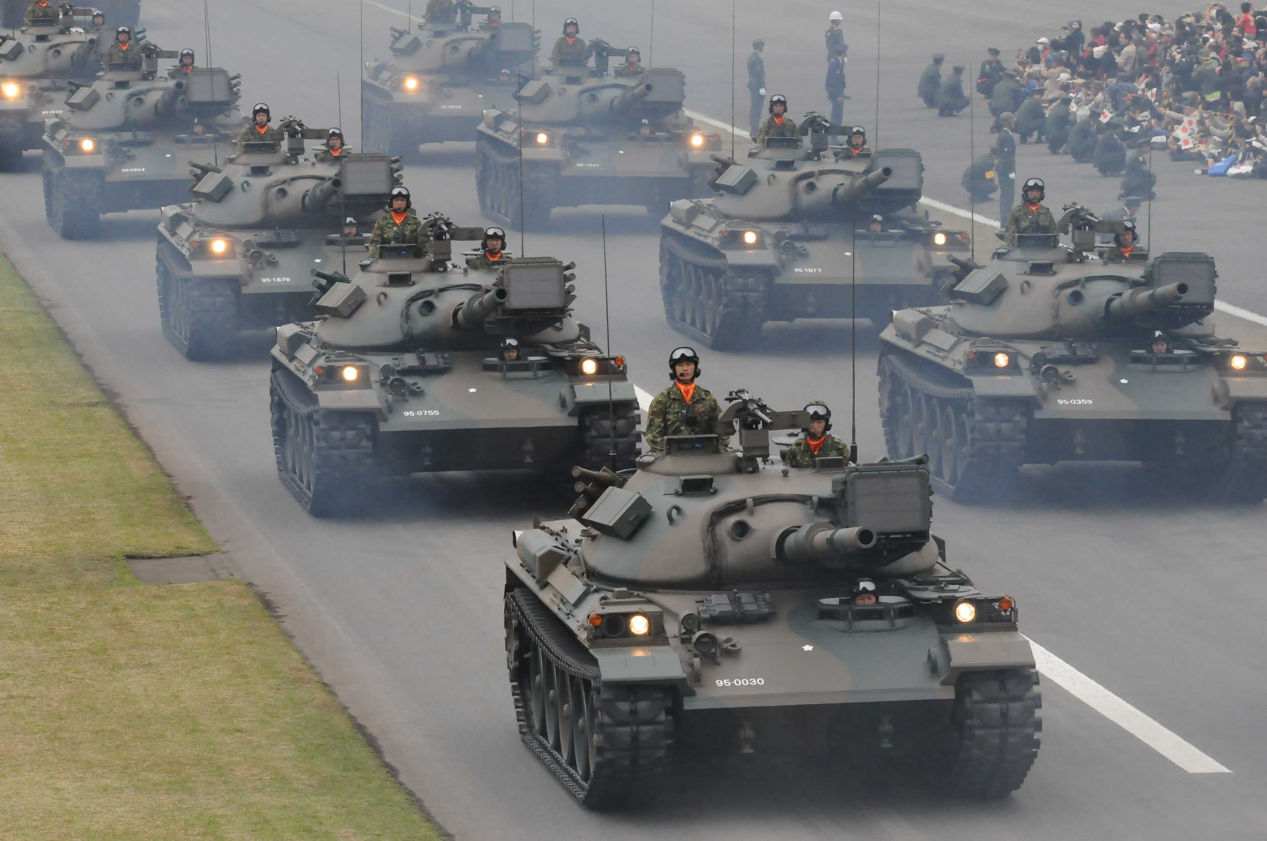 平成22年度観閲式(H22 Parade of Self-Defense Force)